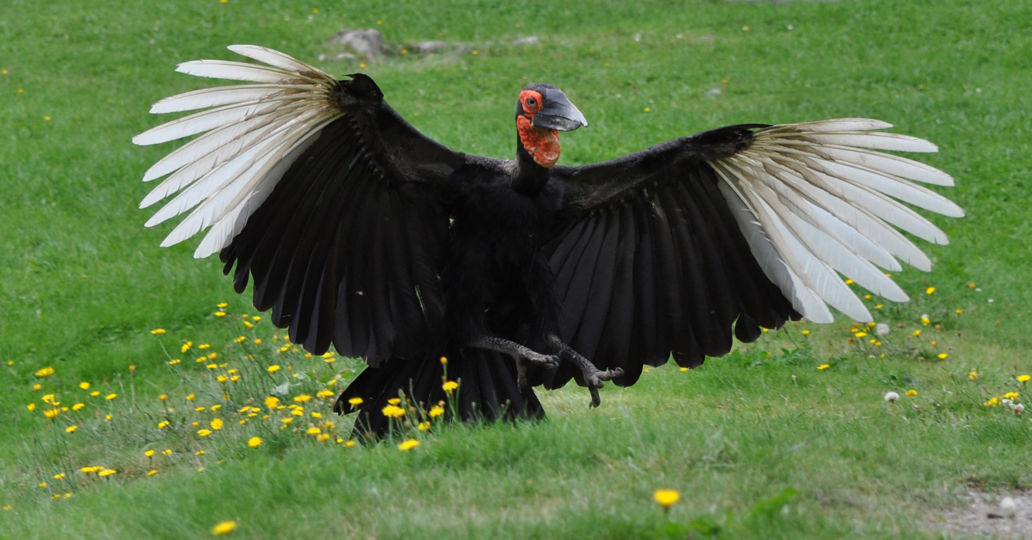 Southern ground hornbill landing